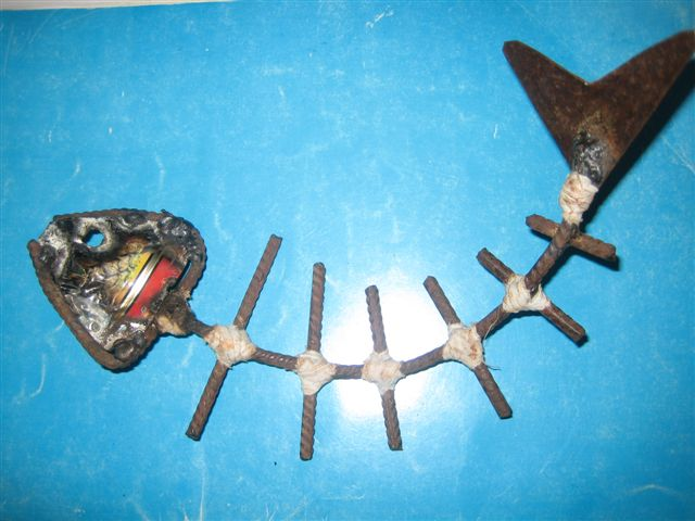 Fish of the artist Henri Sagna, created in Dakar, May 2008